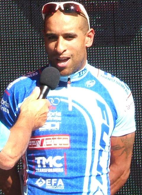 Named cyclist at the en:2009 Tour Down Under team presentation